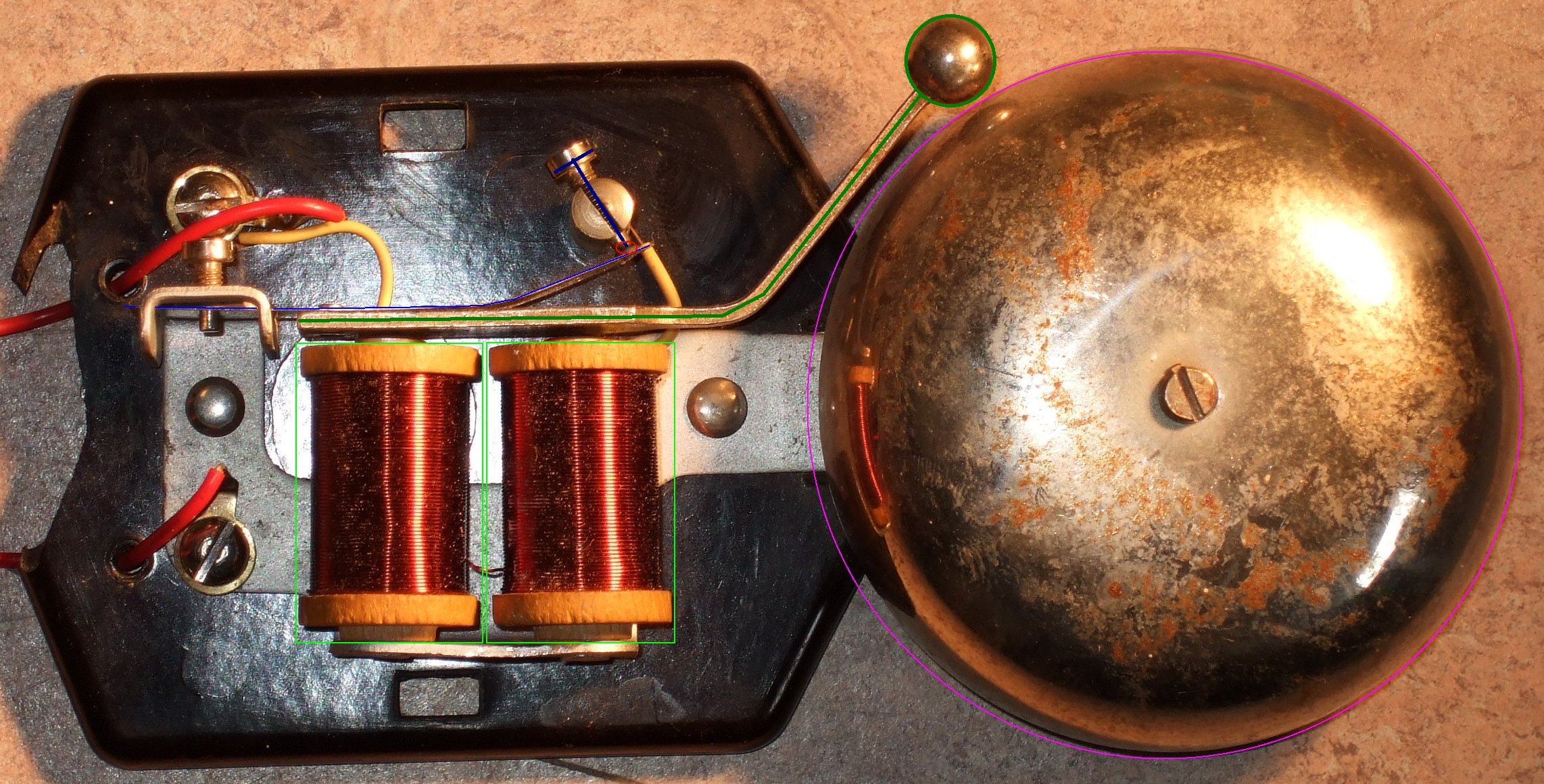 This door bell is composed of: thin clear green line: solenoids thin pink line: bell thick dark green line: clapper thin blue line: spring that holds the clapper and that gives electrical contact think dark blue line: screw for adjusting the electrical contact oval thin red line: contact-area of opening contact Function: Without current applied the bell is as shown in the photograph. The clapper is with some distance to the bell. The electrical contact is closed. When you apply current, the solenoids attract the clapper and the clapper strikes against the bell. The electrical contact opens. An electric arc starts between spring and contact-screw. The current decreases and the solenoids become too weak to keep the clapper in closed position. So the clapper swings back to initial position and closes the electrical contact again.